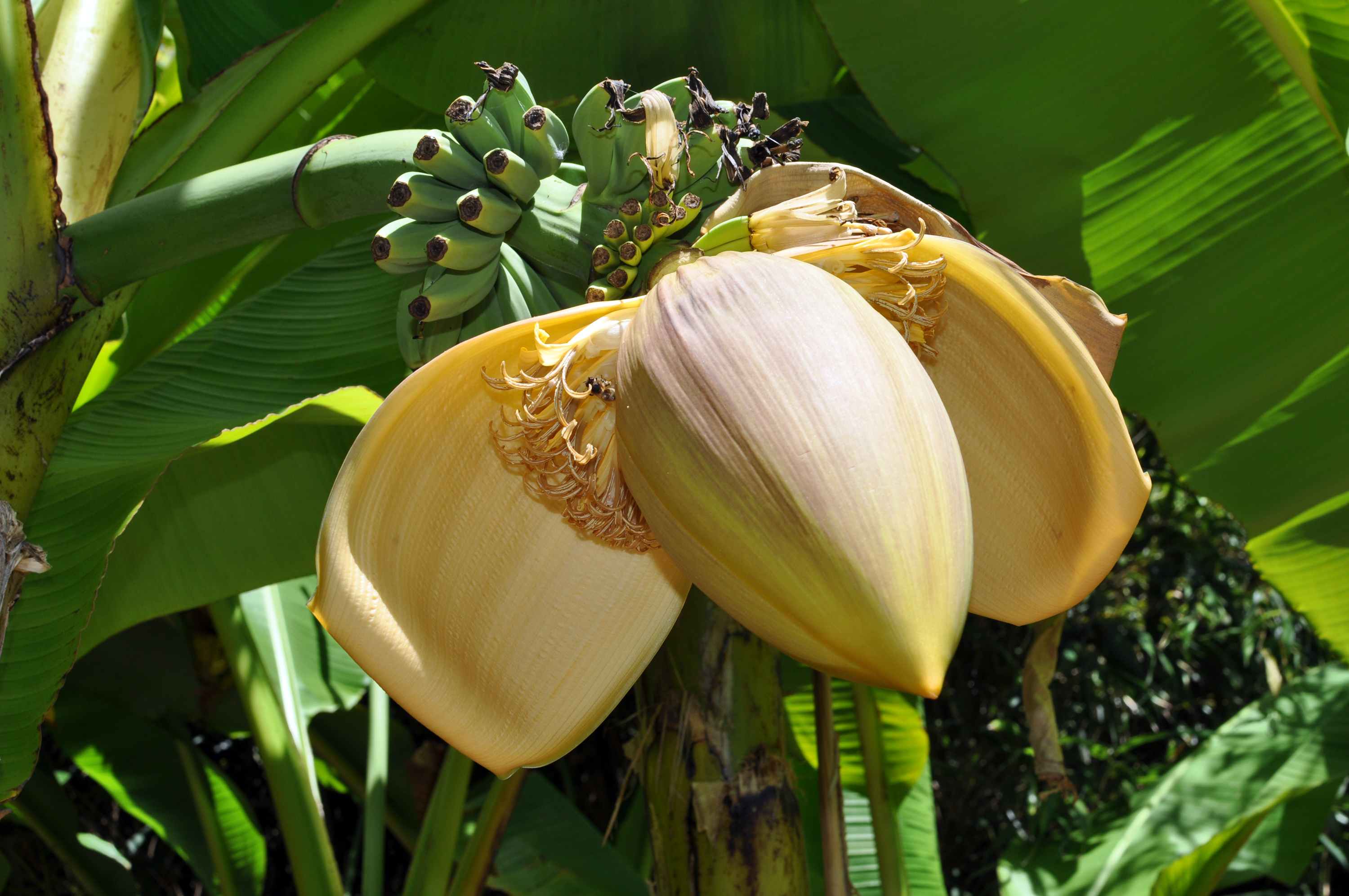 Flower of Musa acuminata at Conservatoire botanique national de Brest Conservatoire botanique national de Brest Native nameConservatoire botanique national de BrestLocationBrest, FranceCoordinates48° 24′ 10.35″ N, 4° 26′ 53.58″ W Established1975: established, 1978: opened to publicWeb page Authority control : Q2994486 VIAF: 135879850 ISNI: 0000 0000 9261 8684 LCCN: no95047958 WorldCat institution QS:P195,Q2994486